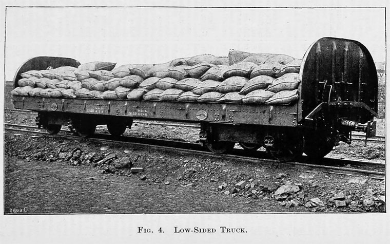 Barsi Light Railway rolling stock by Leeds Forge Co (1897)